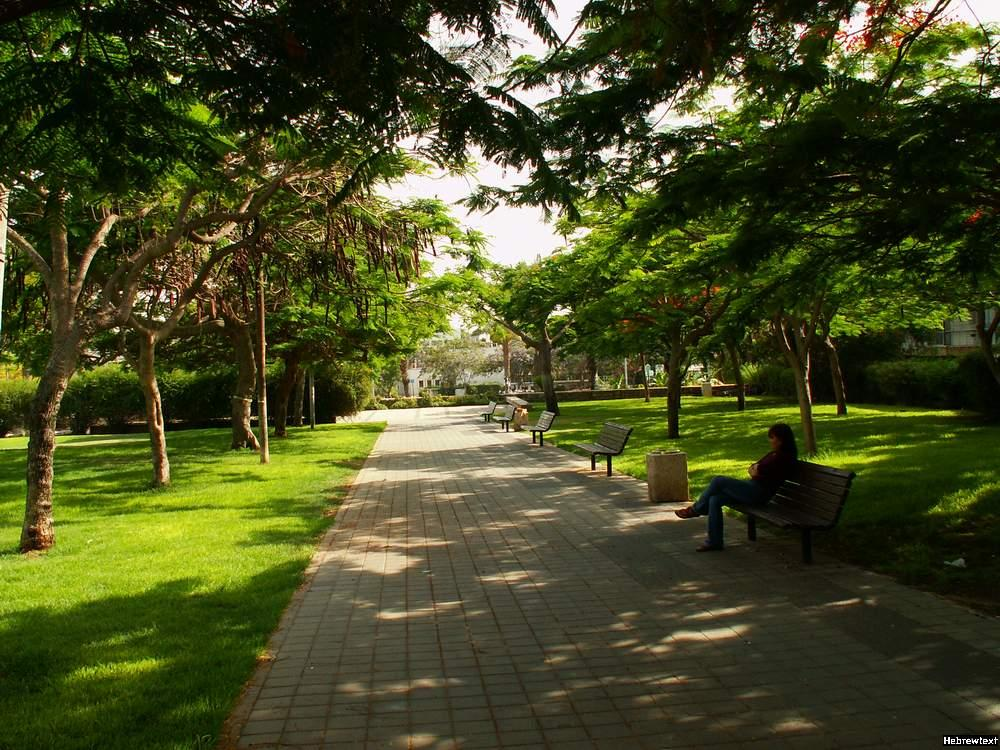 Public Garden in Giv'atayim, Israel